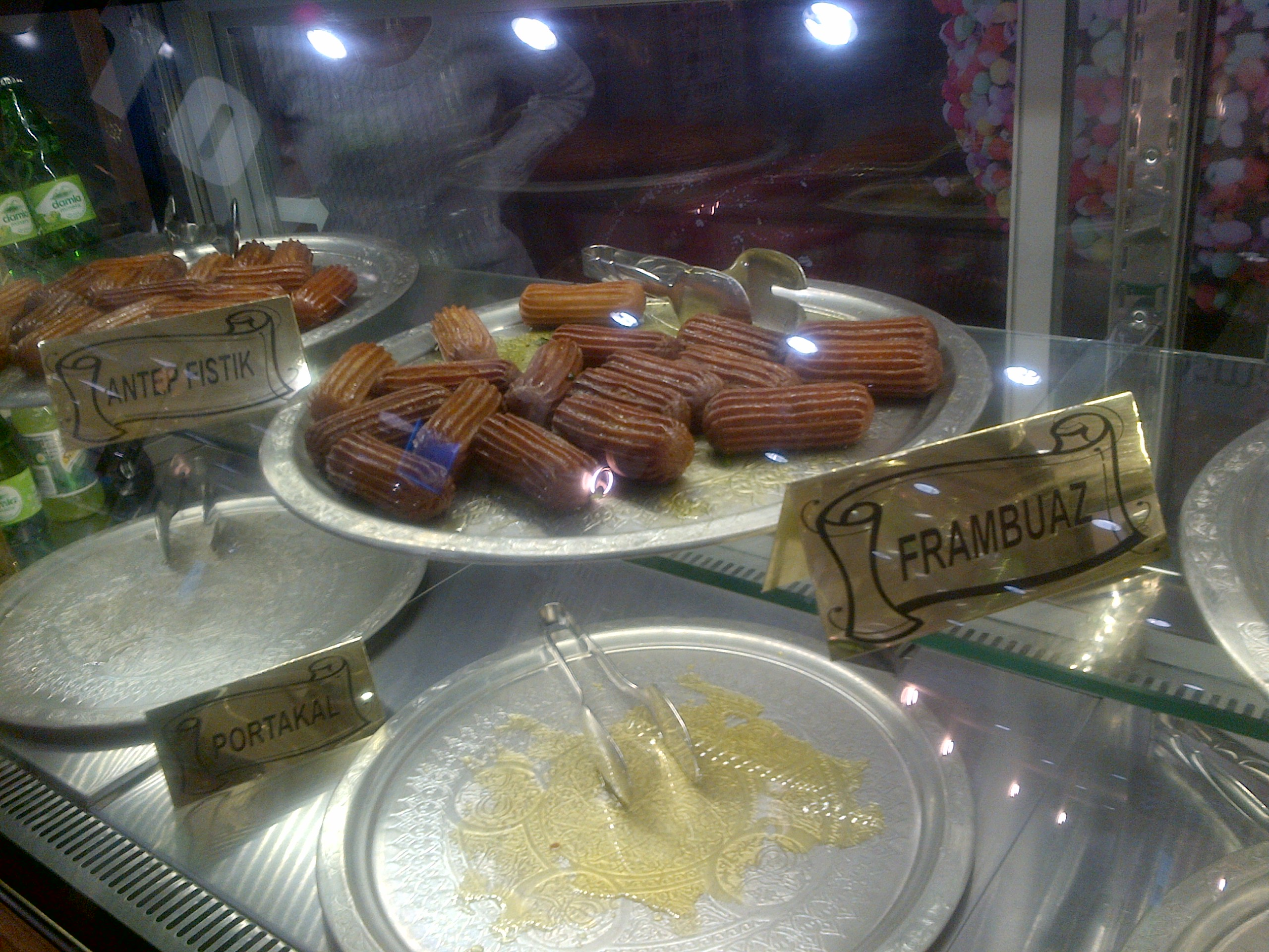 Tulumba with raspberries, at the window of a Turkish sweets shop in Ankara, the trays with "orange" and "pistachio" tulumbas are already sold out.